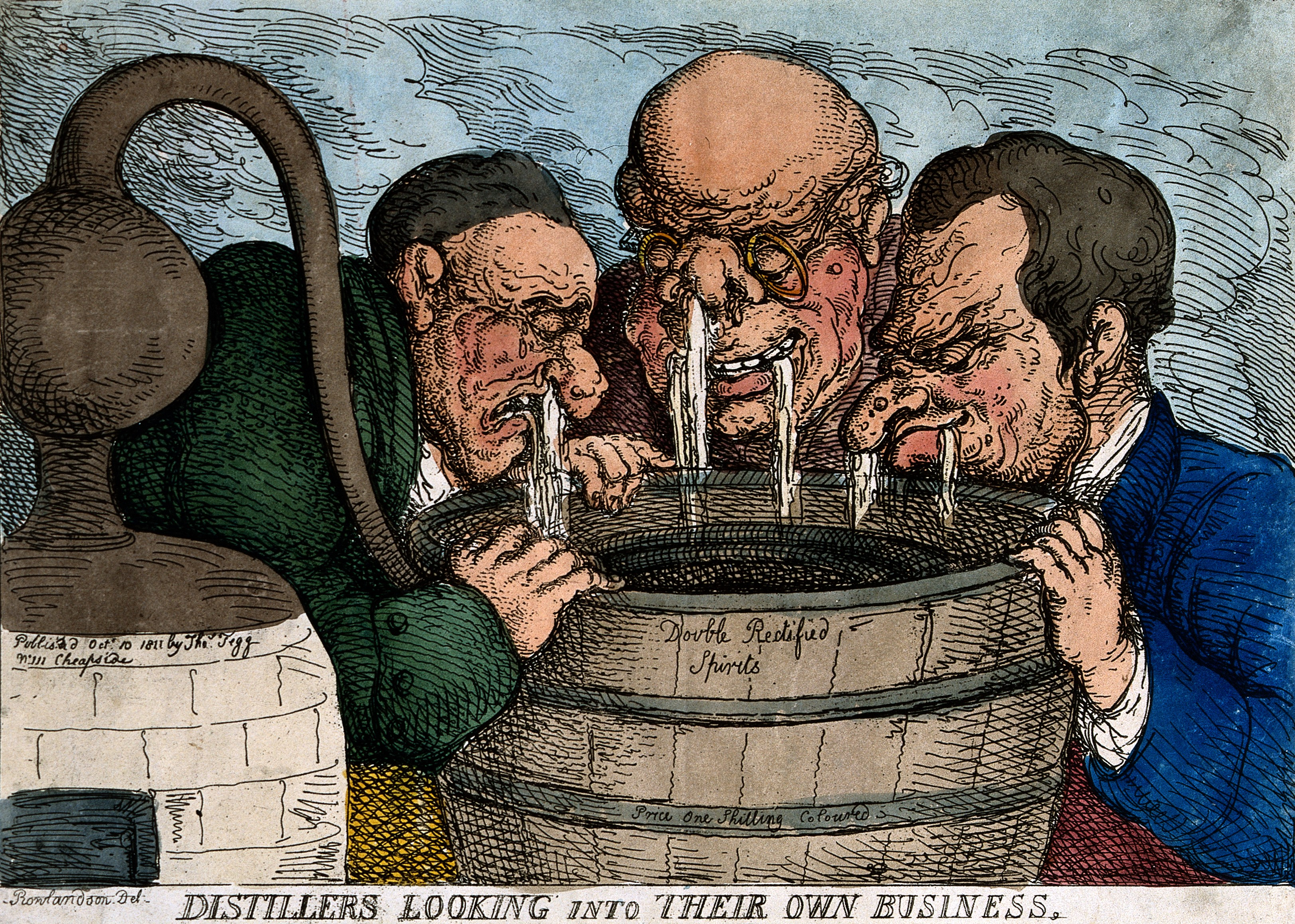 Three grisly distillers with streams running from their noses and mouths into a tub of "double rectified spirits". Coloured engraving, c. 1811, after T. Rowlandson. Iconographic Collections Keywords: Thomas Rowlandson